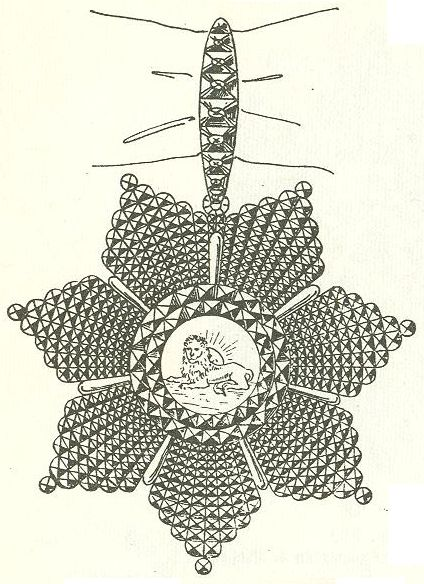 Kleinood